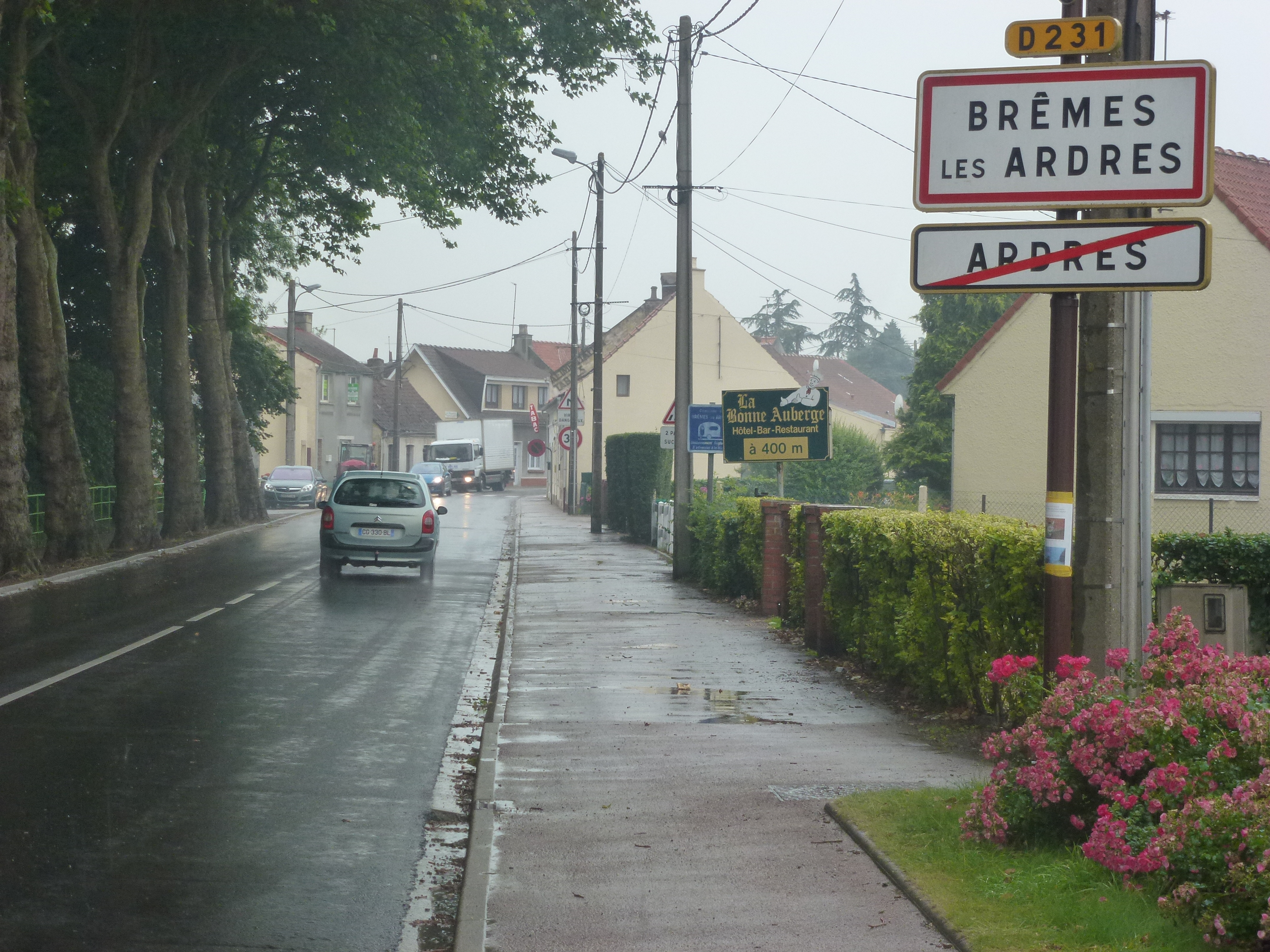 Brêmes-les-Ardres (Pas-de-Calais) city limit sign